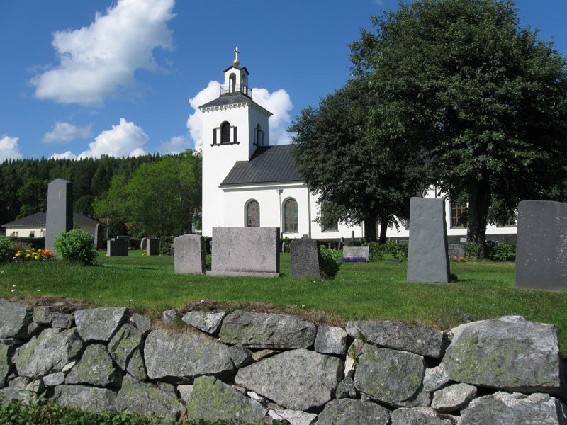 Hassela lutheran church in northern Hälsingland, Sweden.